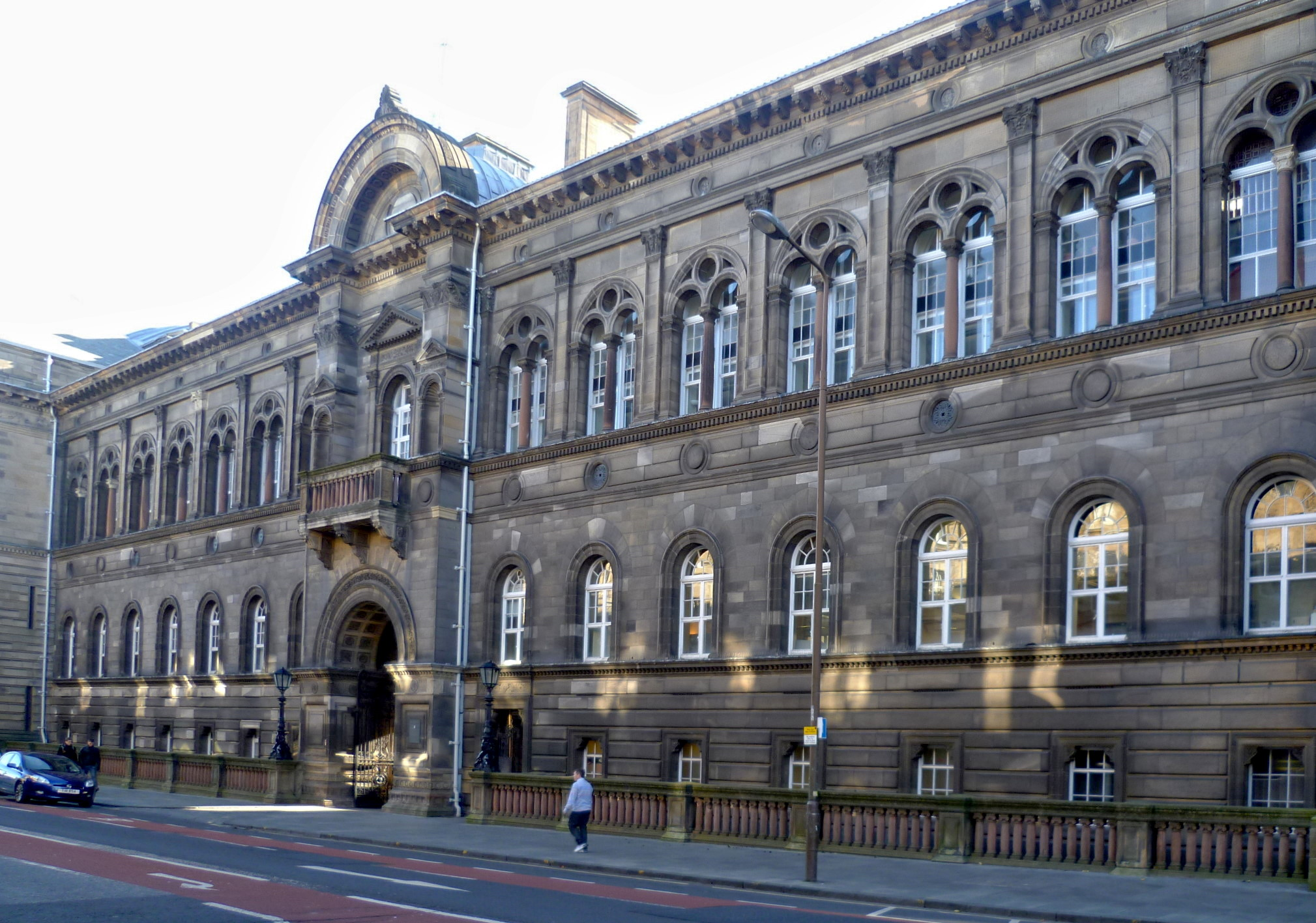 The first faculty of medicine at a British university was founded in Edinburgh in 1726. This building, designed by Sir R Rowand Anderson in the style of a Venetian Renaissance palace was completed in 1888. An intended campanile at the east end, based on St. Mark's in Venice, never materialised. The building houses an Anatomy Museum, among whose grislier exhibits is the skeleton of William Burke, displayed publicly as an explicit consequence of the sentence passed on him for his part in the so-called "West Port murders" of the early 1820s. He and his accomplice, William Hare, are known to have murdered at least 16 victims before their apprehension. The strength of public indignation aroused by the murders and directed against the medical profession gave added impetus to the passing of the 1832 Anatomy Act which increased the legal supply of corpses to the medical schools.